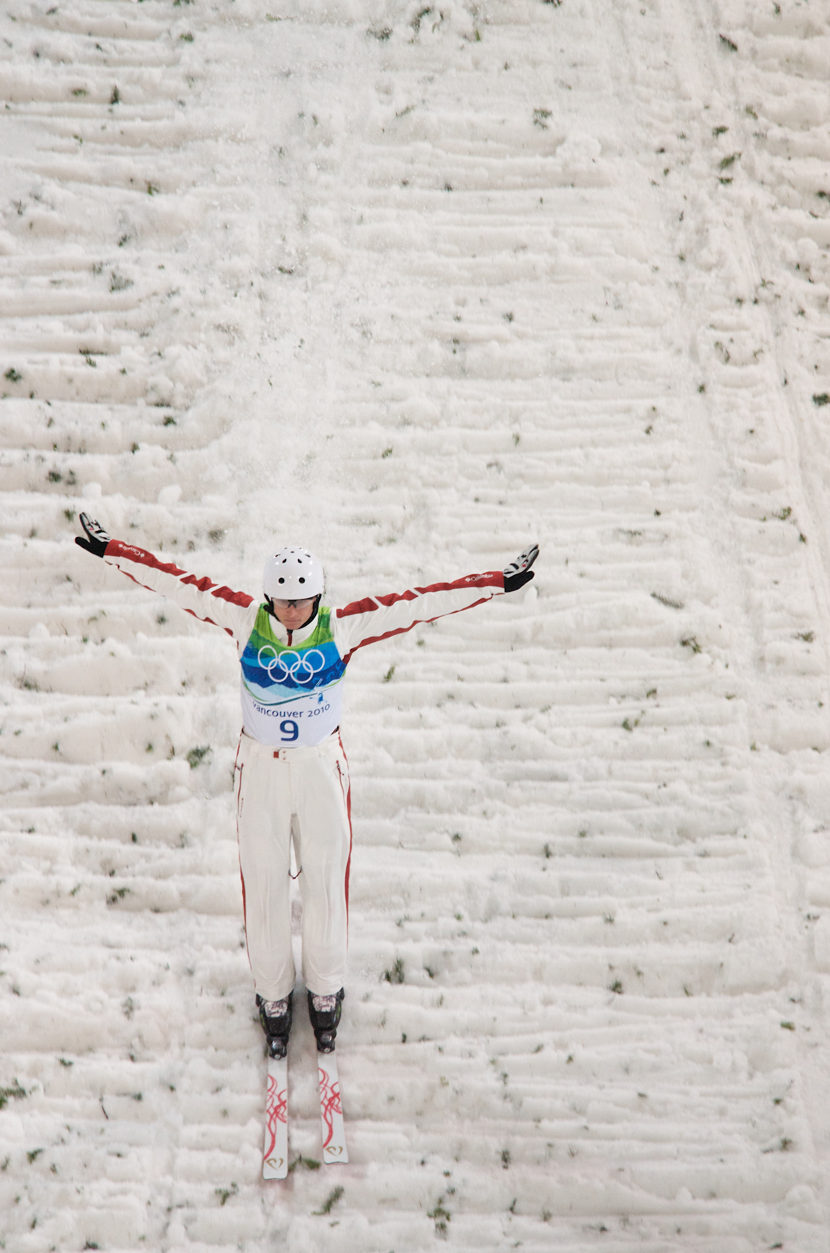 Results: 1. Belarus. GRISHIN Alexei 2. United States. PETERSON Jeret 3. China. LIU Zhongqing